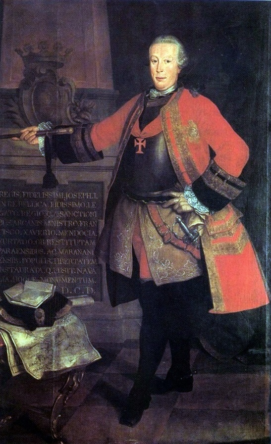 Portrait of Francisco Xavier de Mendonça Furtado, Portuguese colonial administrator and politician